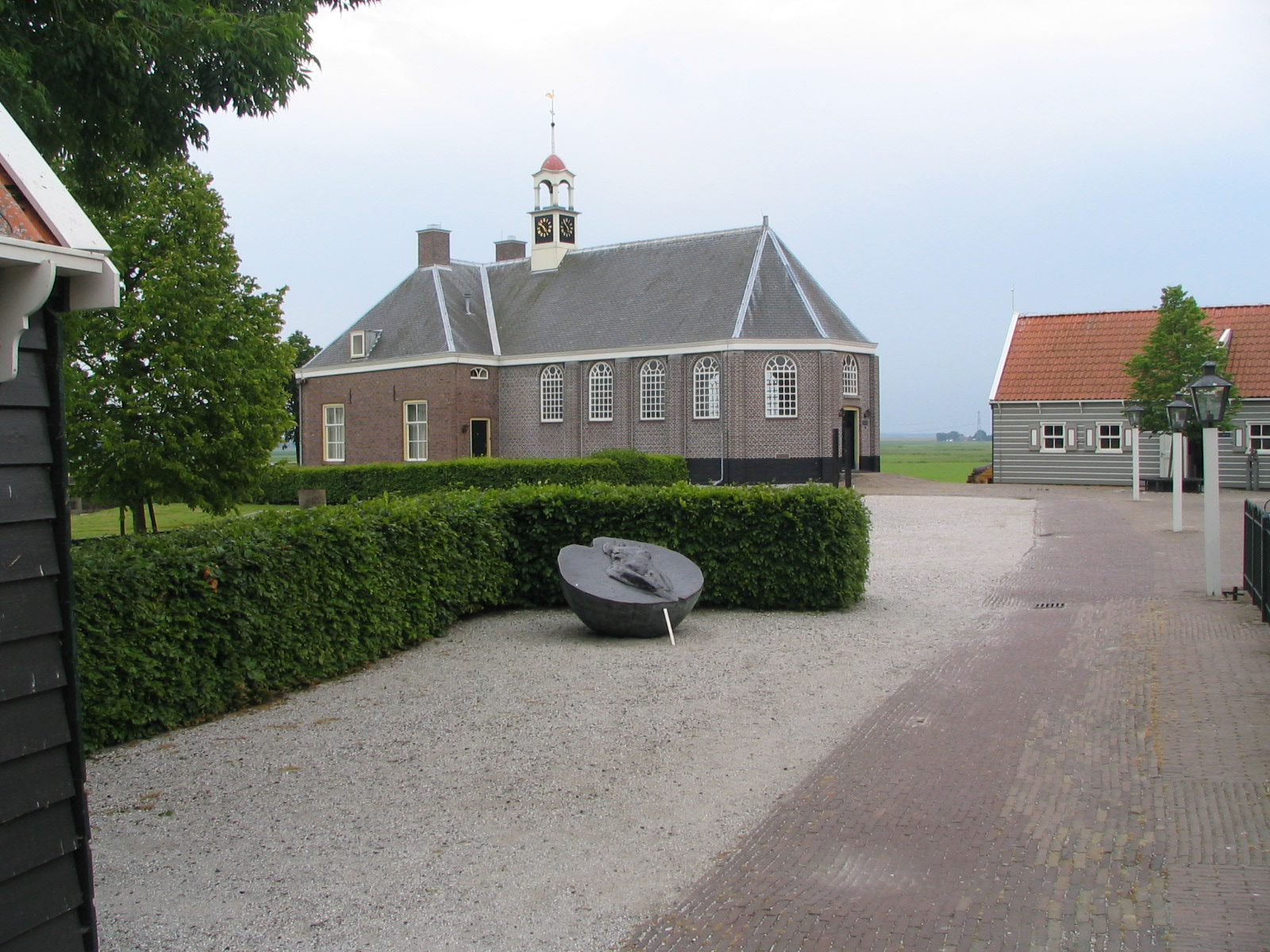 Schokland, Flevoland, the Netherlands